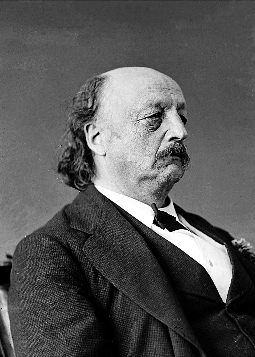 Benjamin Franklin Butler Honorable Senator from Massachusetts, Library of Congress Prints and Photographs Division, Forms part of Brady-Handy Photograph Collection